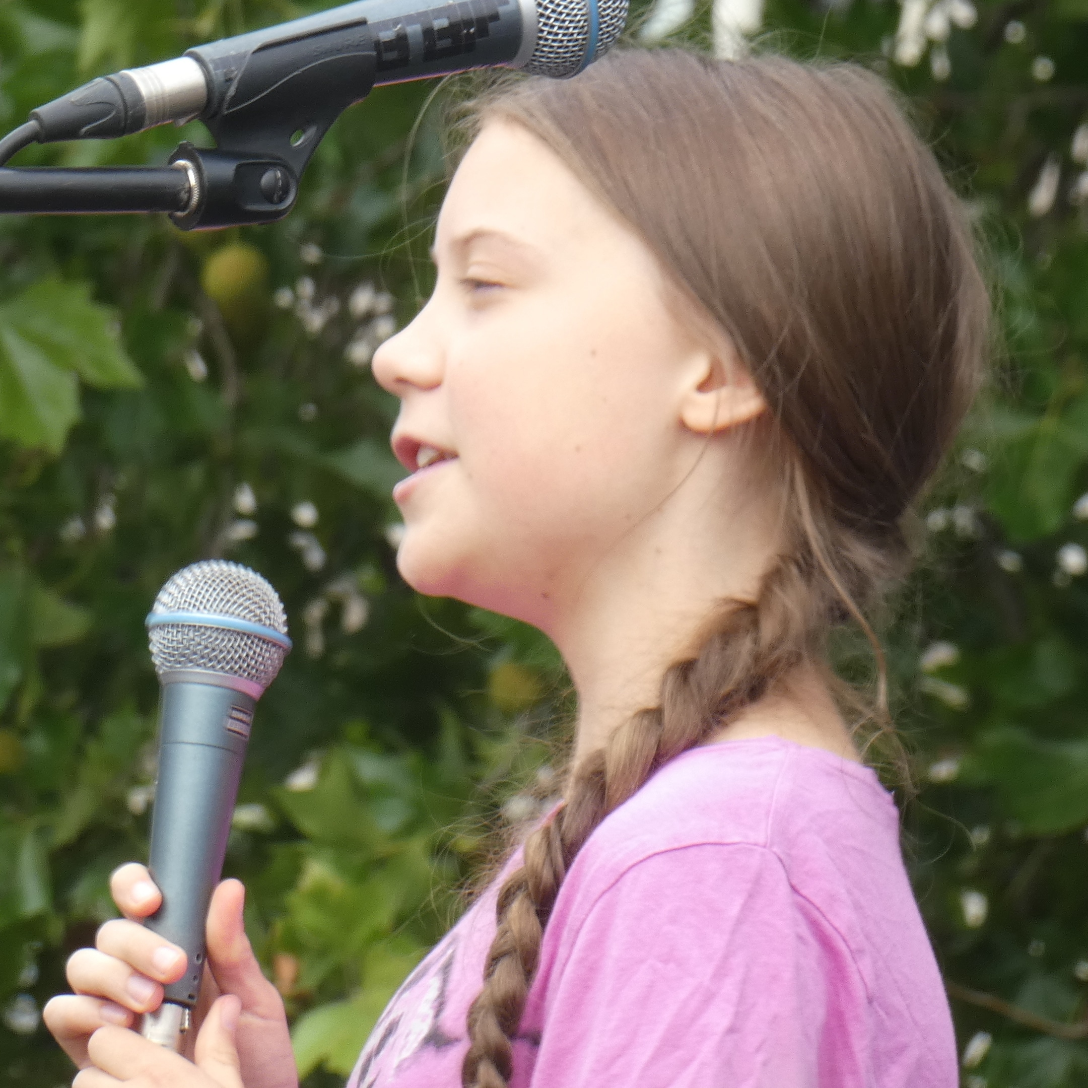 School strike for climate in Berlin 2019-07-19